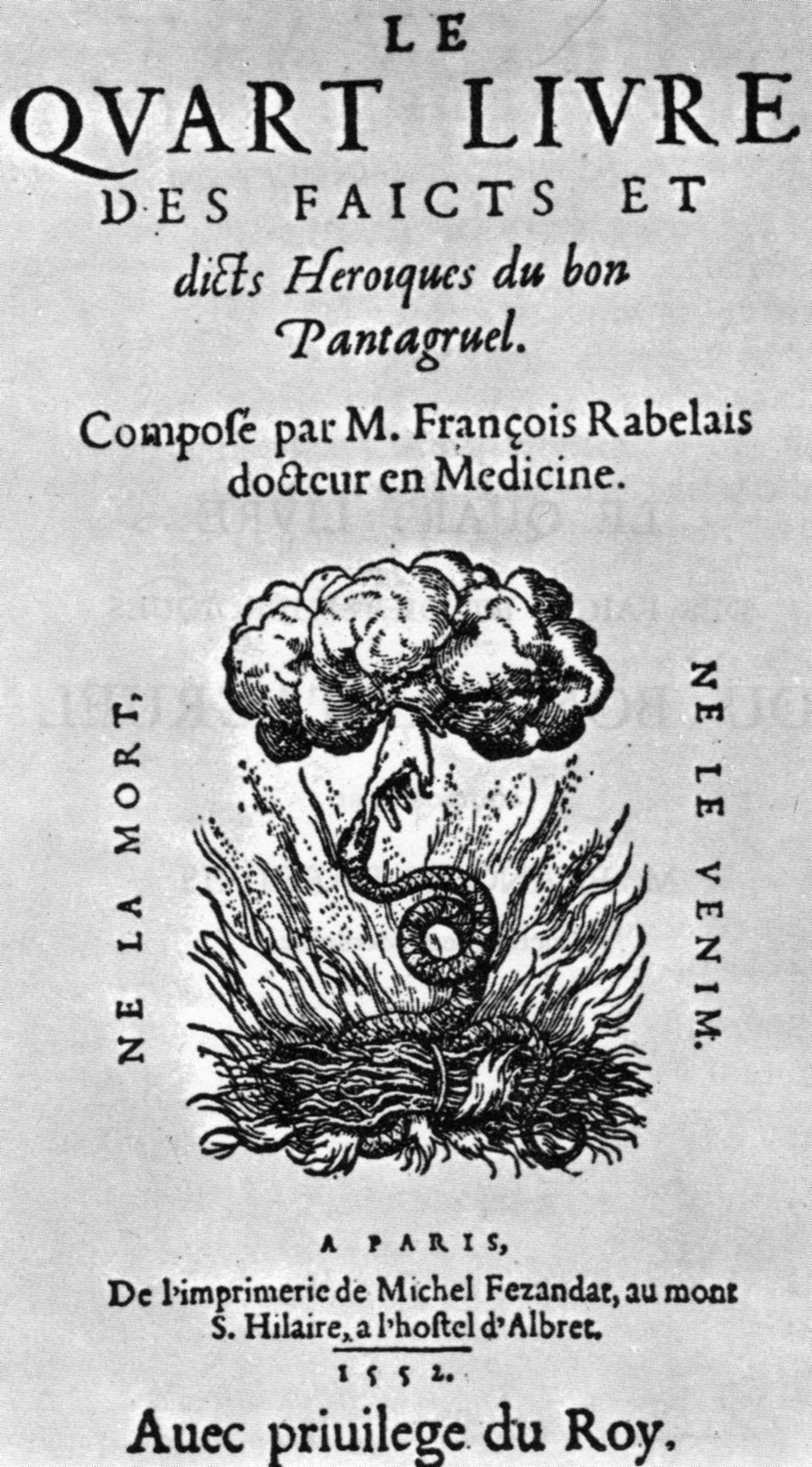 Title page of 1548 edition of Rabelais's "Le quart livre"